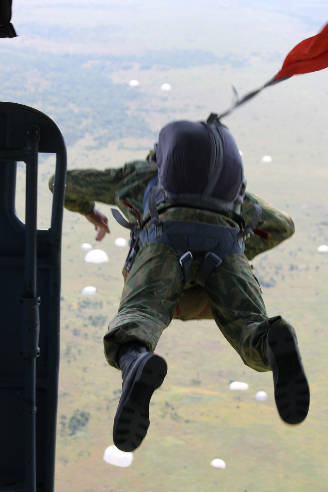 A Ukrainian Ground Forces paratrooper assigned to the 95th Separate Airborne Brigade leaps out of an aircraft over Yavoriv, Ukraine, July 9, 2013, during a multinational airborne operation as part of Rapid Trident 2013. Rapid Trident is an annual joint combined exercise involving the U.S. and Partnership for Peace member nations. Missions alternate in odd and even years. In odd years Rapid Trident is a field exercise, while in even years the exercise incorporates a command post exercise.